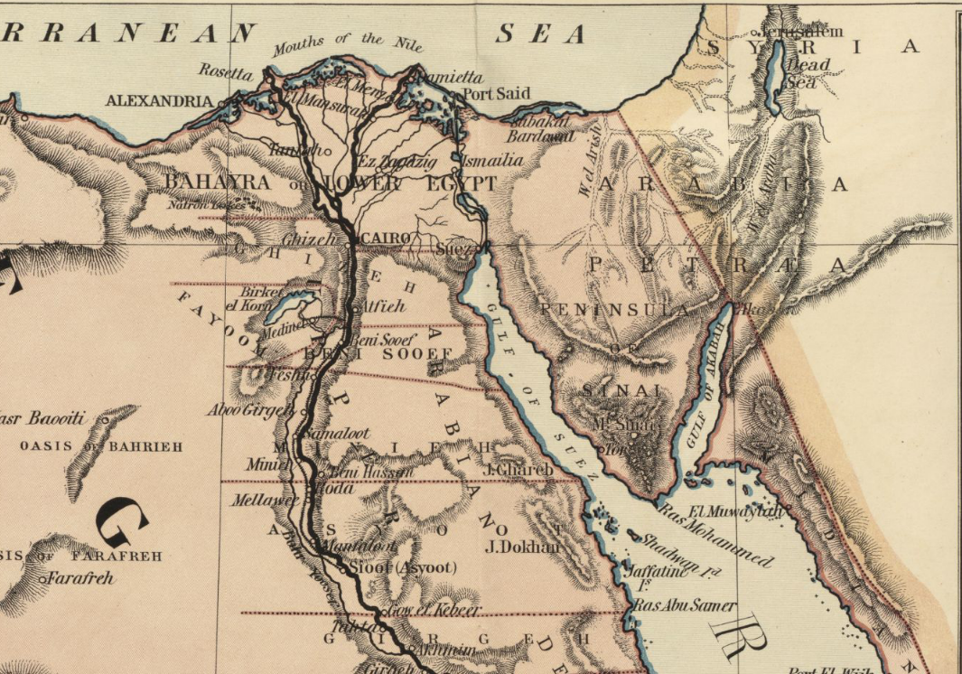 Detail of map: Egypt and the Basin of the Nile Author: Johnston, W. & A.K. Publisher: Johnston, W. & A. K. Date: 1885 Scale: 1:3,294,720